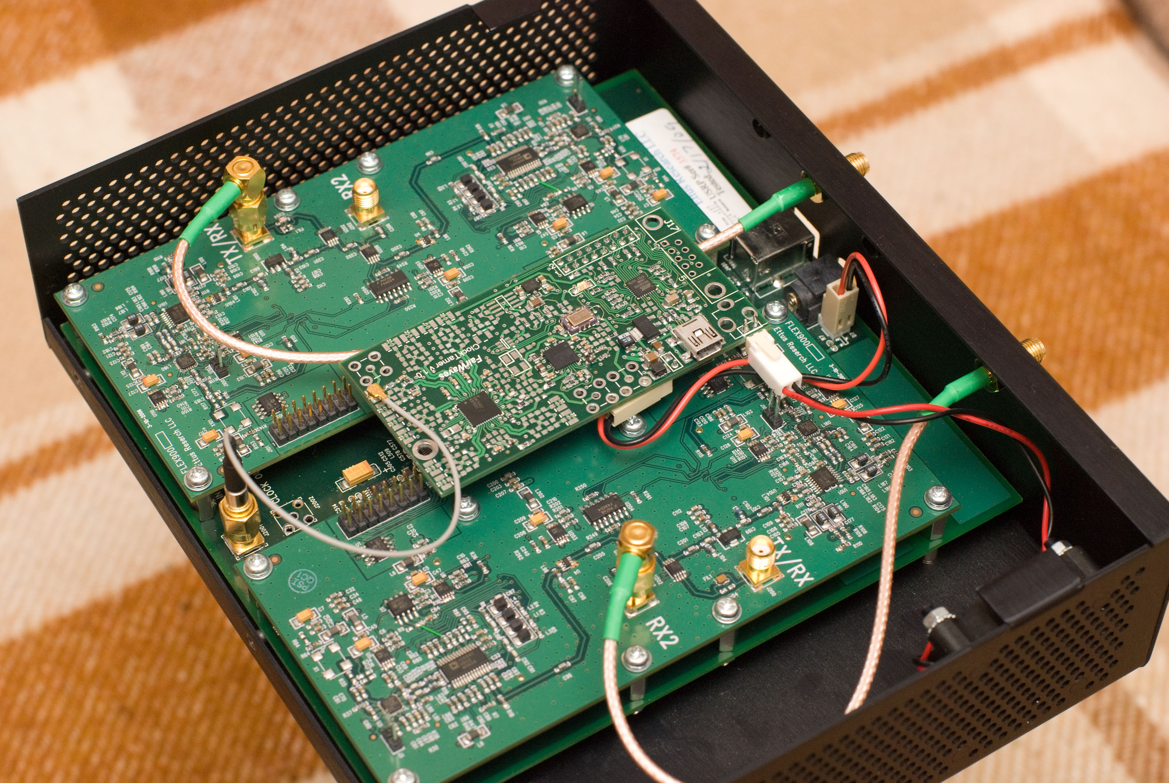 USRP with two RFX900 and ClockTamer